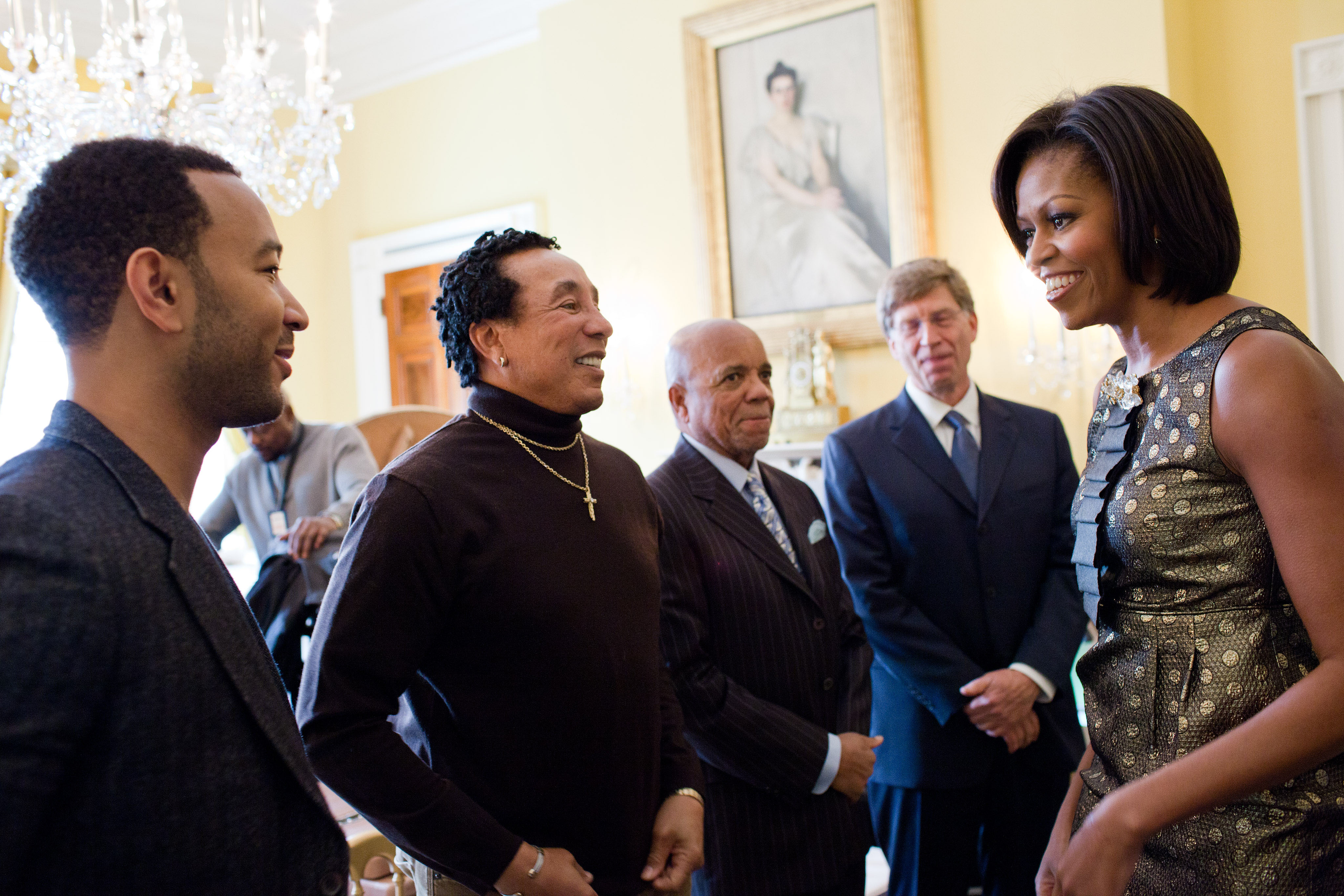 First Lady Michelle Obama greets, from left, John Legend, Smokey Robinson, Berry Gordy, and Bob Santelli in the Old Family Dining Room of the White House before the Motown Music Series student workshop, Feb. 24, 2011. (Official White House Photo by Samantha Appleton)